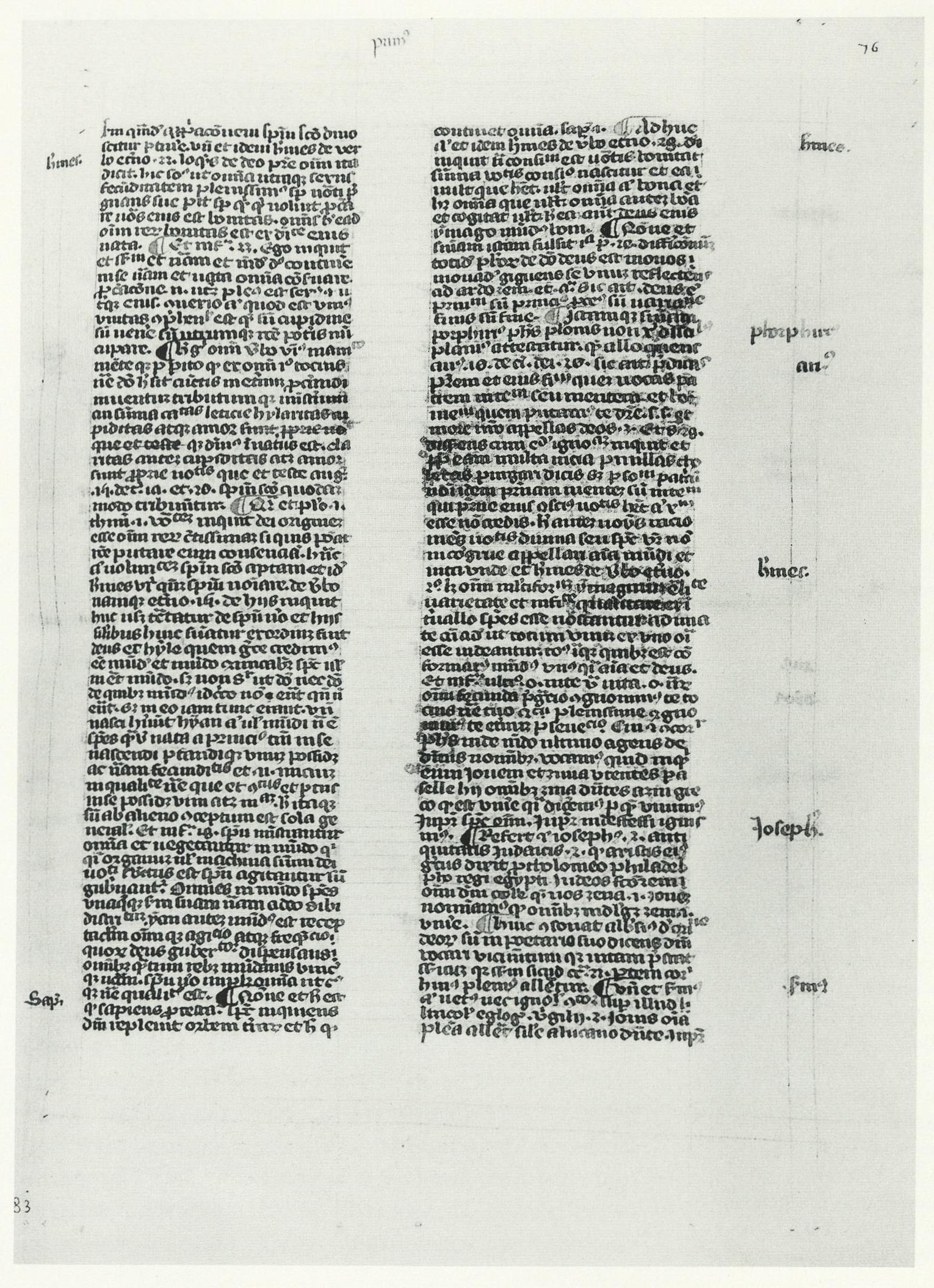 A page of the treatise De causa dei contra Pelagianos in the manuscript Florence, Biblioteca Nazionale Centrale, Conv. soppr. G.III.418, fol. 83r.